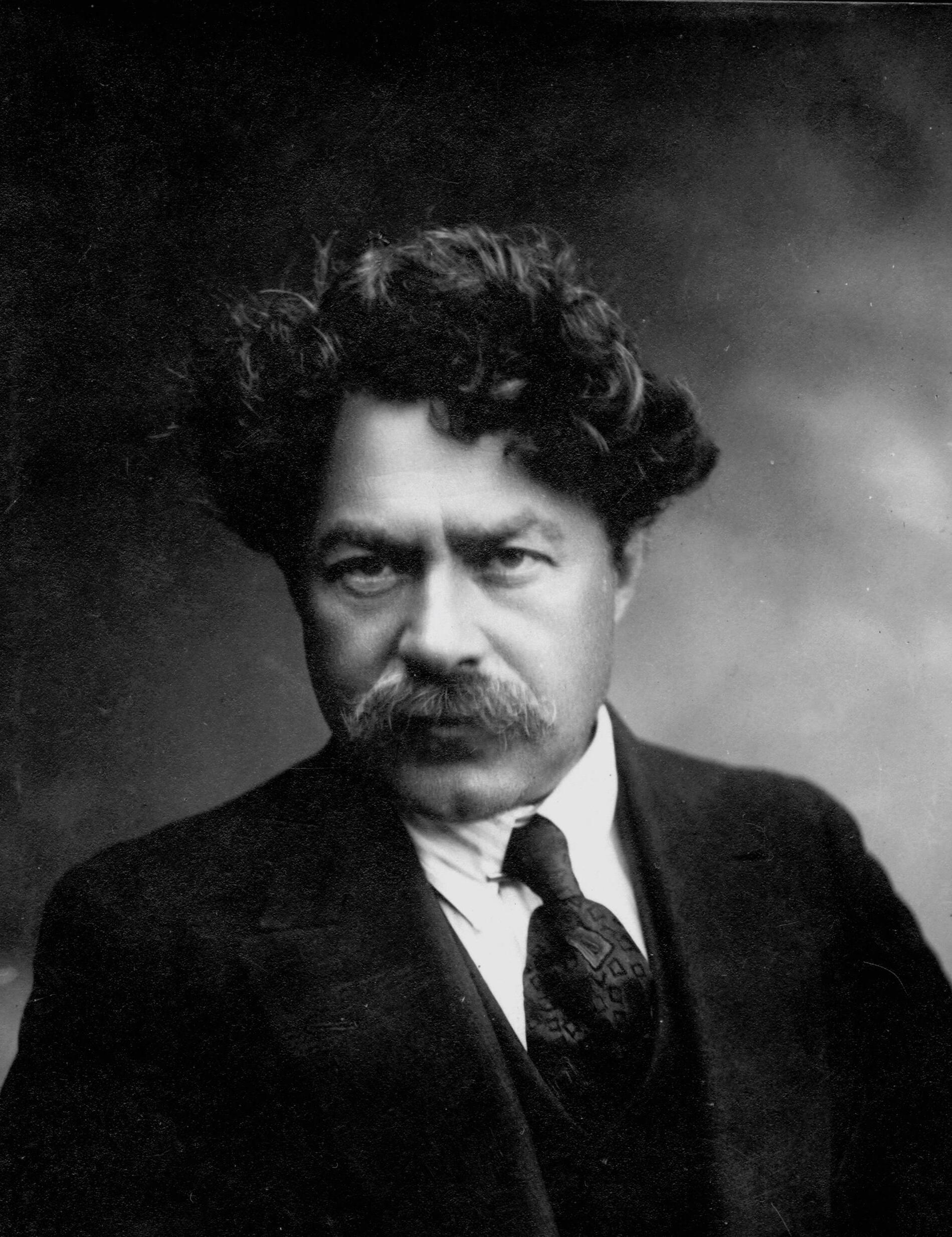 original description:PORTRAIT, POET AND AUTHOR SHAUL TSHERNIHOVSKY. alternative spelling Shaul Tchernichovsky.